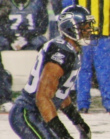 Brett Favre and Green Bay Packers offense lines up in a Monday Night Football game vs Seattle Seahawks Nov. 27, 2006 at Qwest Field.